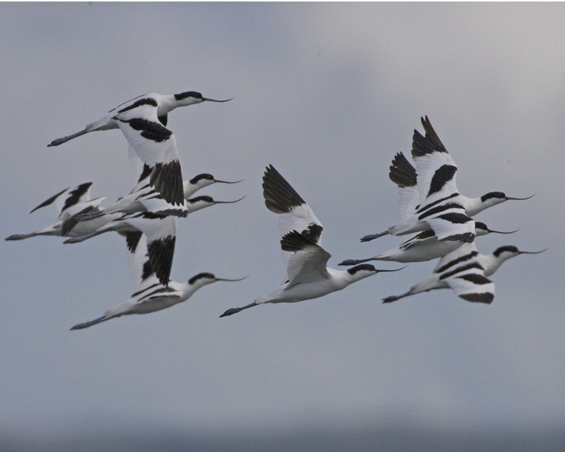 Pied Avocet Recurvirostra avosetta 7th, October 2009 Strandfontein, Capetown, South Africa Distribution: Avibase - The World Bird Database